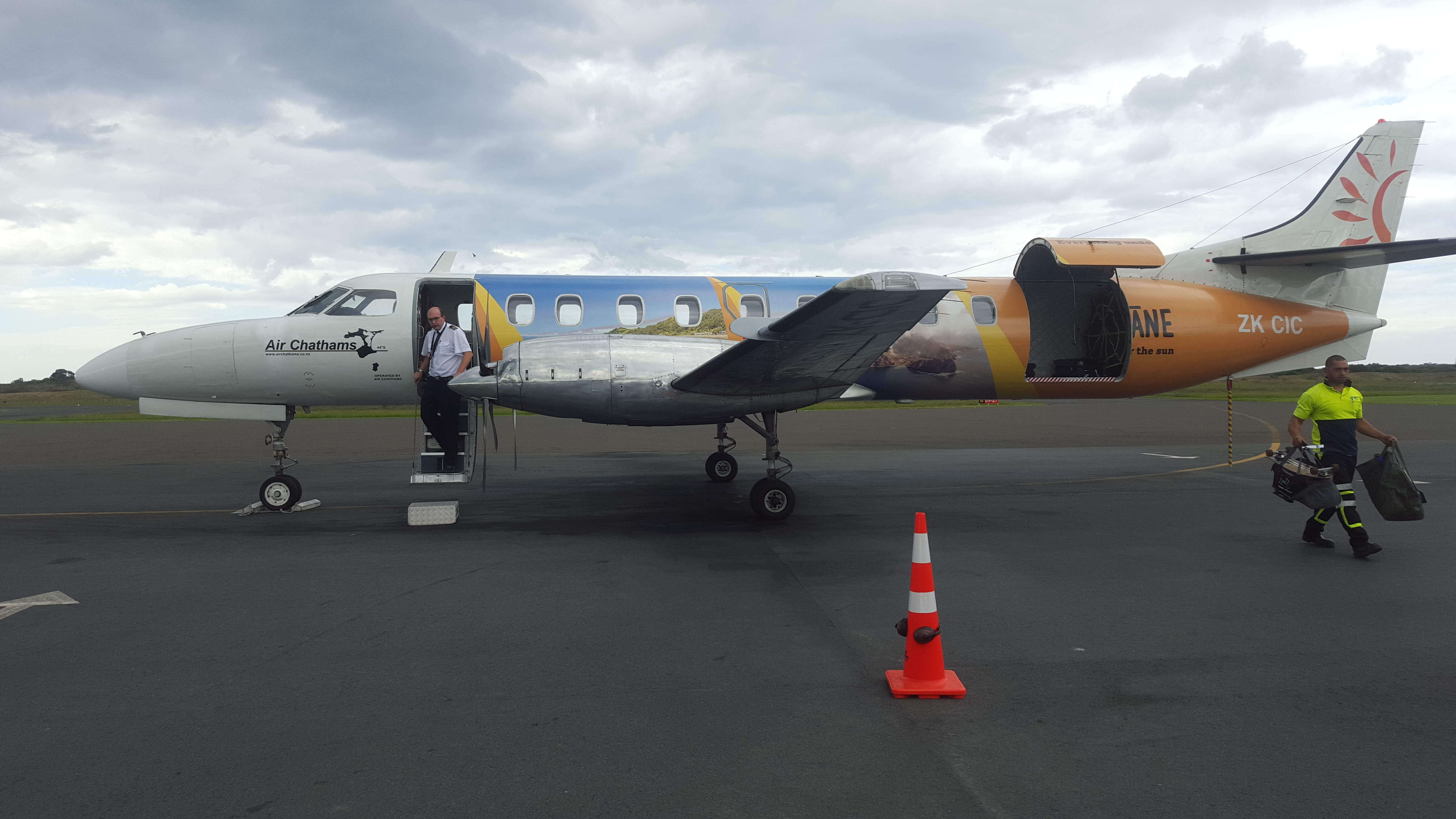 Colourful Air Chathams Fairchild Metroliner on the tarmac at Whakatane Airport. The aircraft is used exclusively by the airline to maintain a scheduled air service between the Bay of Plenty town and Auckland International Airport.